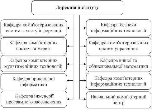 Direction of institute